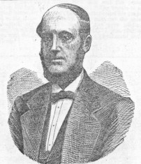 Drawing of Henry Edward Bird, chess player by Sam Loyd, first published in 1877 in Scientific American Supplement